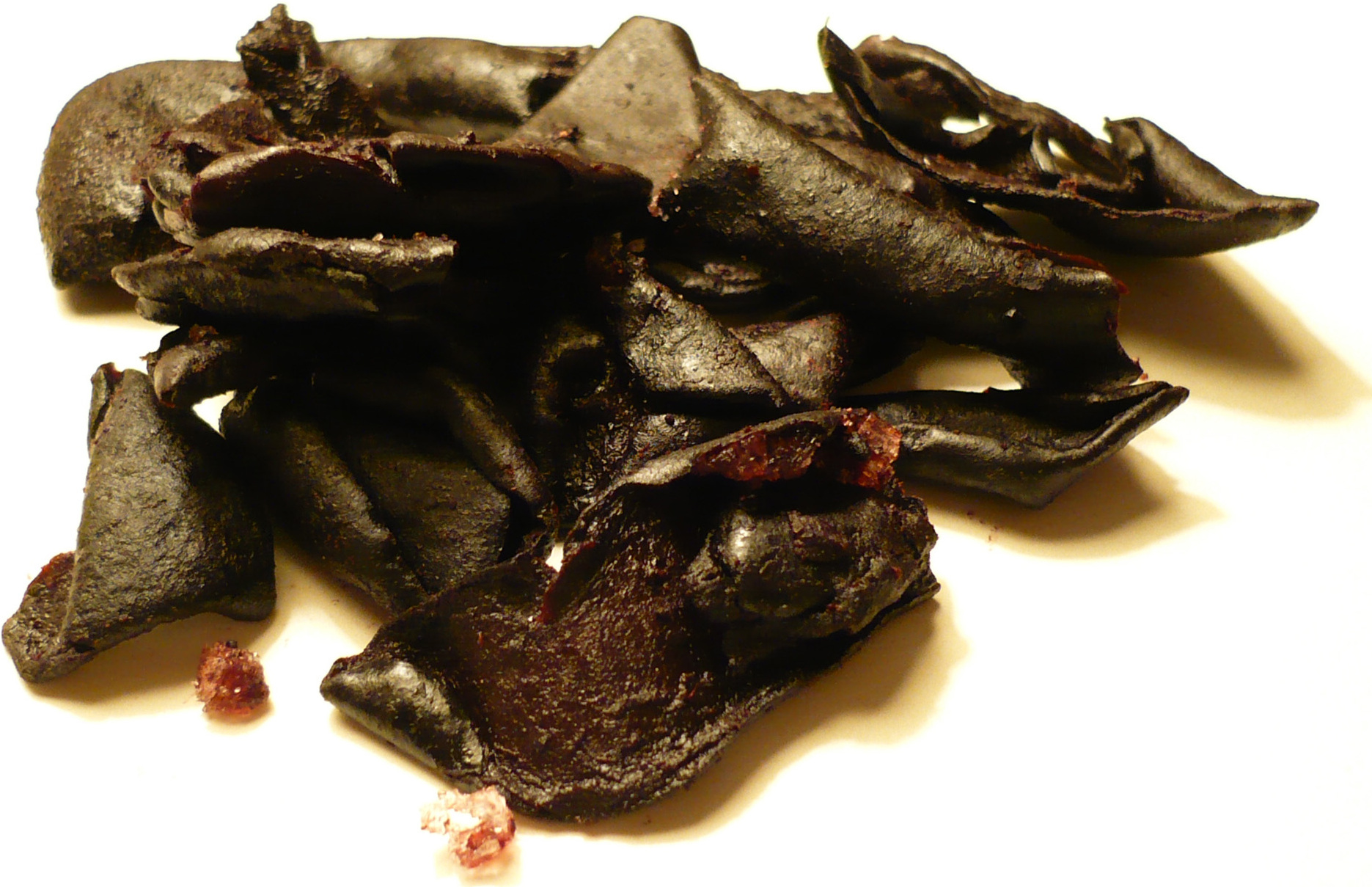 Dried kokum (Garcinia indica) fruits. Photo taken in Kent, Ohio with a Panasonic Lumix digital camera (model DMC-LS75). Kokum fruits purchased in a northeast Ohio-area Indian grocery store. Kokum fruits are used as a souring agent in some regional cuisines of North India. The kokum is preserved with salt, and several salt crystals are visible in the photo.